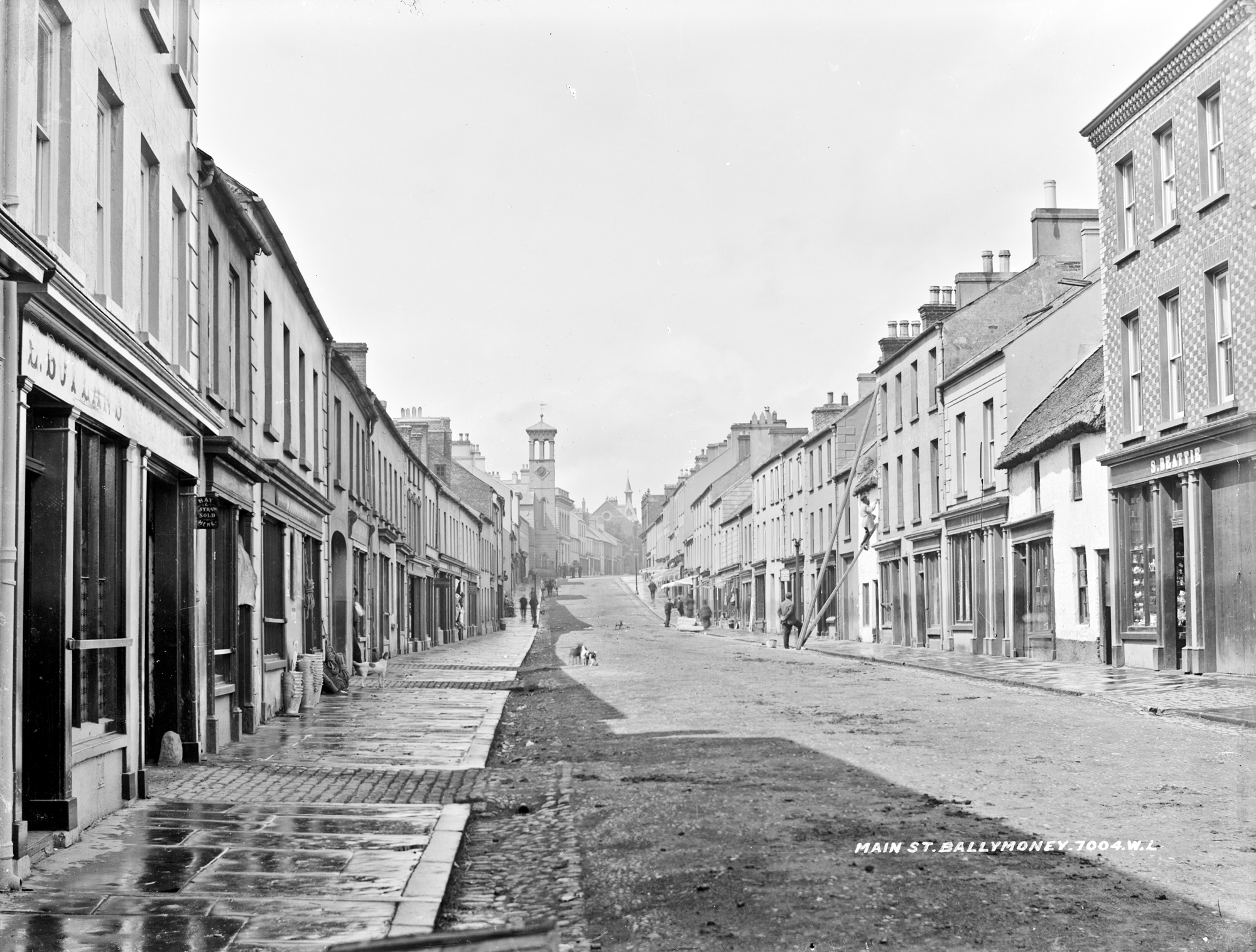 From one end of the country to the other, today we are in Main Street Ballymoney, County Antrim. I wonder if "life can be so sweet on the sunny side of the street". Today's contributions focused on the businesses closest to camera, including Beattie's earthenware to the right, and [ Boylan's spirits] to the left. Based on these businesses and the buildings pictured, including "Currie's" opposite the clock tower of the Masonic/Market Hall, the consensus is that the image dates to the end of the range. Likely turn of the 20th century. And likely in the summer. Around lunchtime.... Photographer: Robert French Collection: Lawrence Photograph Collection Date: c.1880-1900 (likely c.1900) NLI Ref: L_ROY_07004 You can also view this image, and many thousands of others, on the NLI’s catalogue at